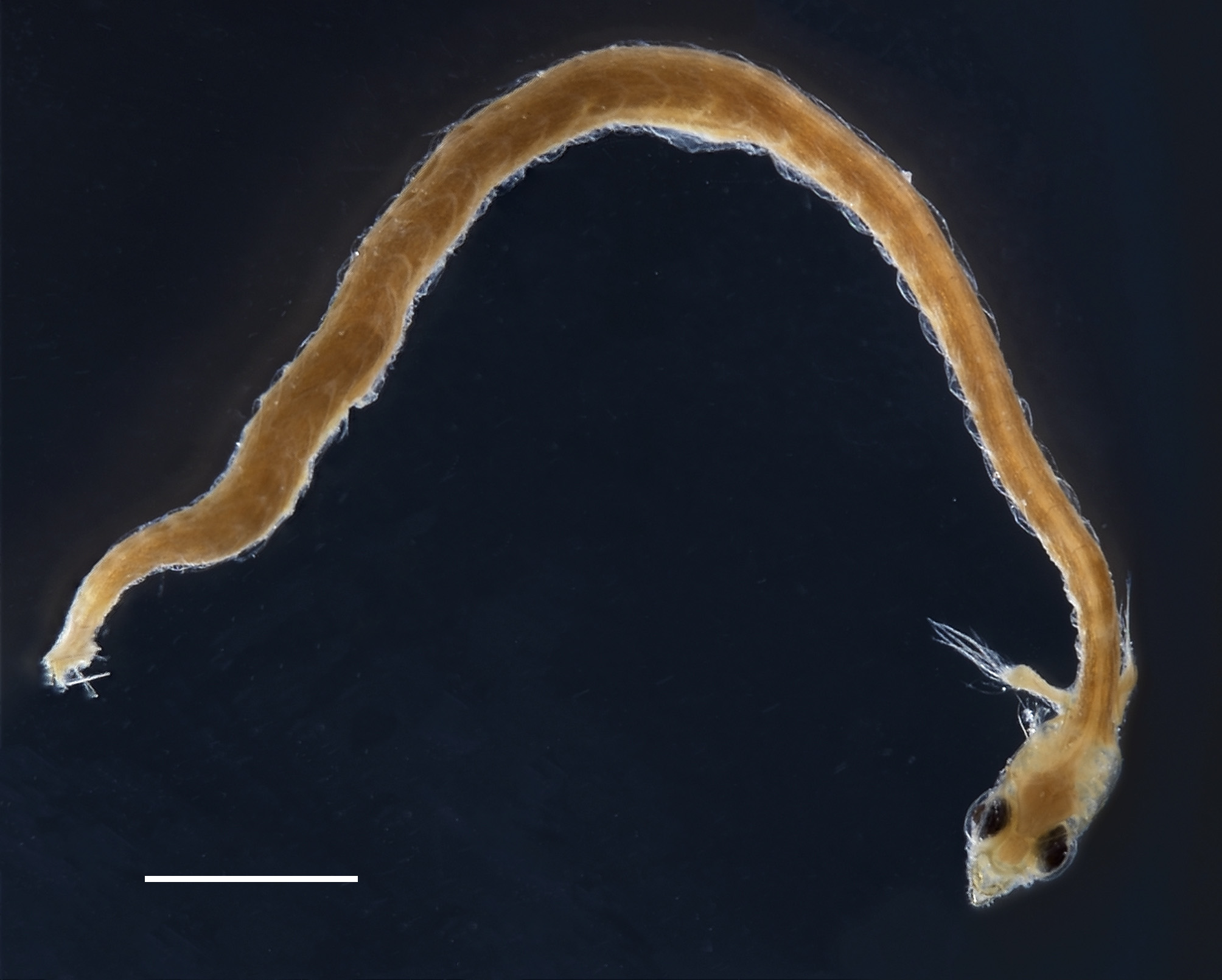 Schindleria macrodentata. Paratype, ZMUC 77617, female, SL 18.7 mm; Philippines, Sulu Sea, 11°43′N, 121°43′E; 27 June 1929. Scale bar = 2 mm.